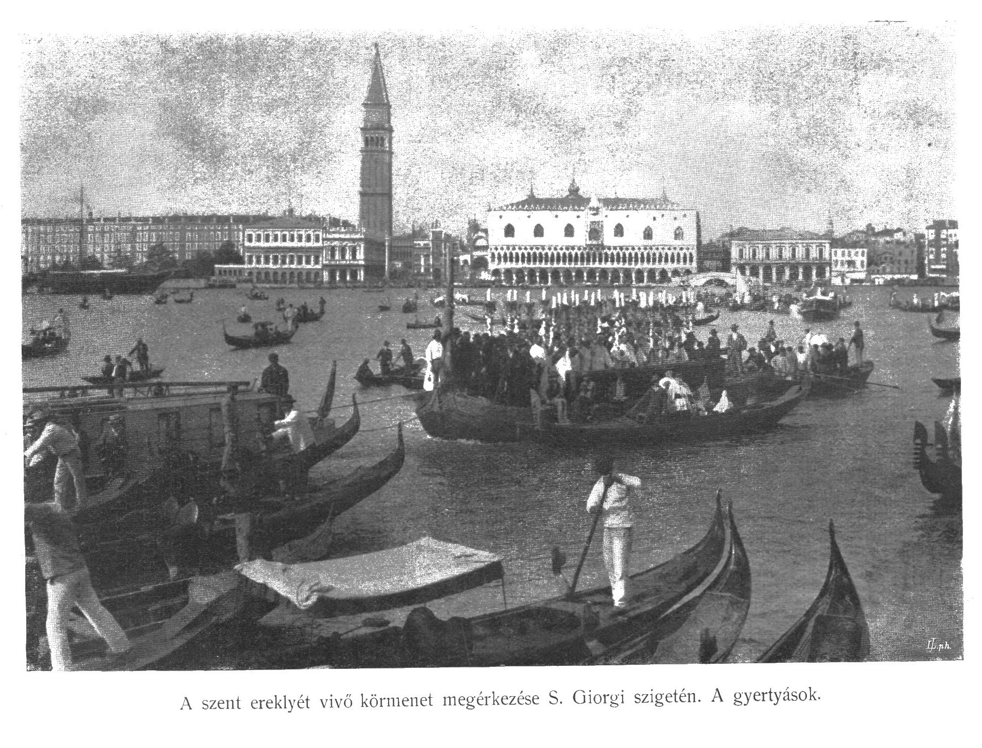 En: Procession with relics of Saint Gerardo Sagredo before San Giorgio in Venice. Candlers. Hu: A szent ereklyét vívő körmenet megérkezése S. Giorgi szigetén. A gyertyások.